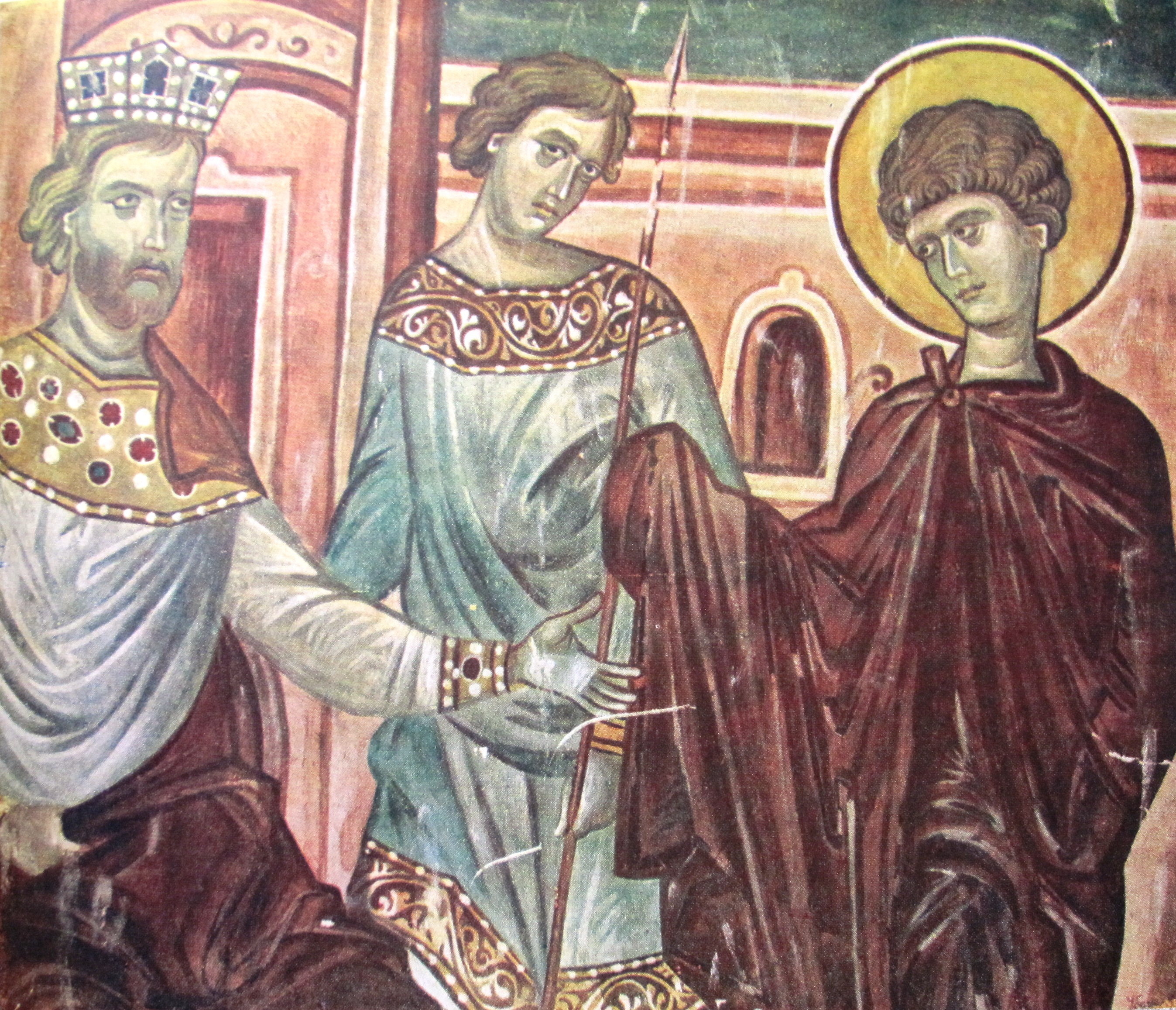 St. George before Diocletianus. A mural from the Ubisi Monastery, Georgia